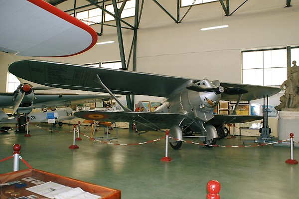 Breguet XIX TR Bidon "Jesus del Gran Poder", modified for a long range flight from Seville to Bahia, Brazil, 4/10.